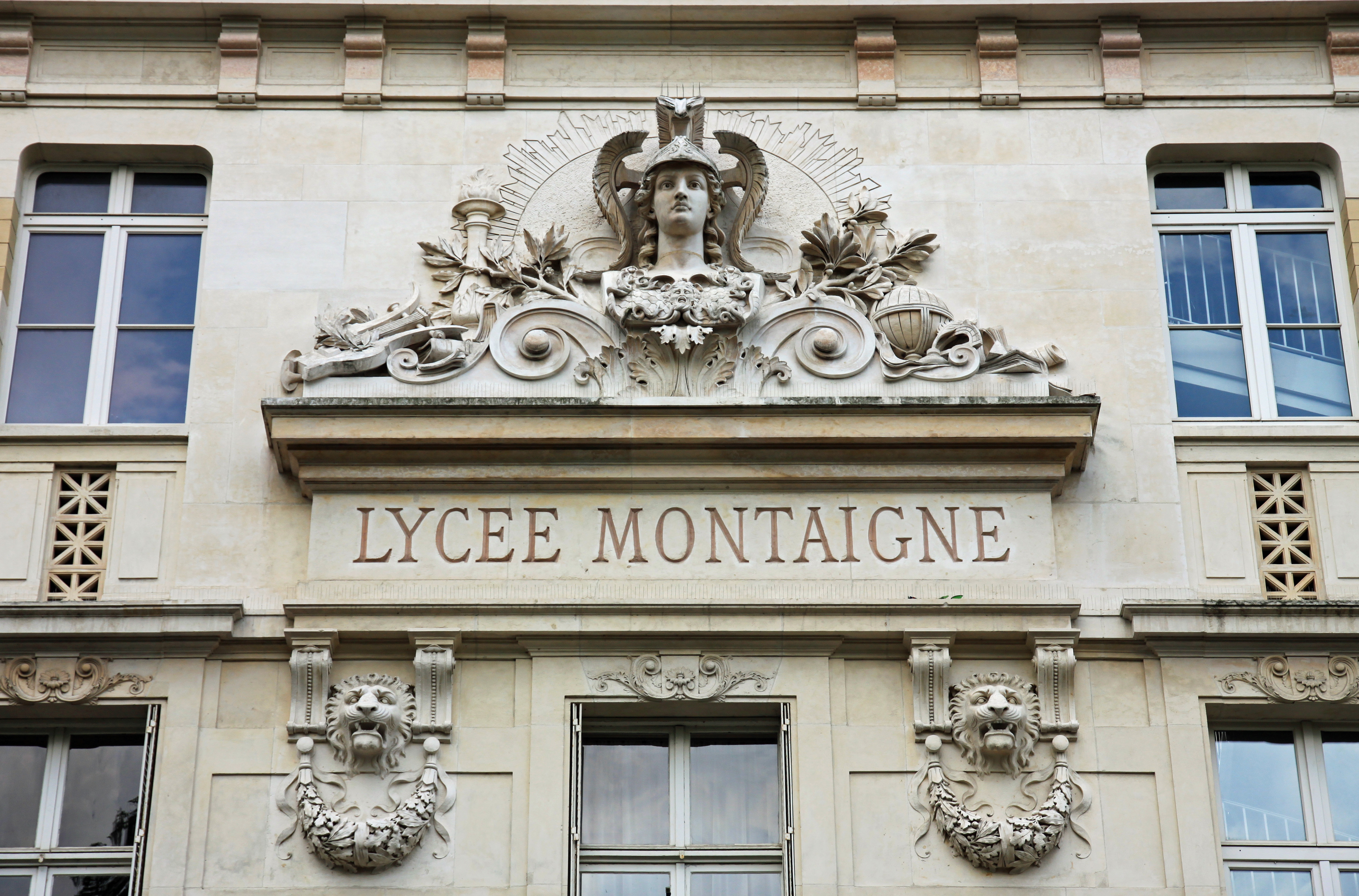 Detail of the facade of the Lycée Montaigne, Paris.